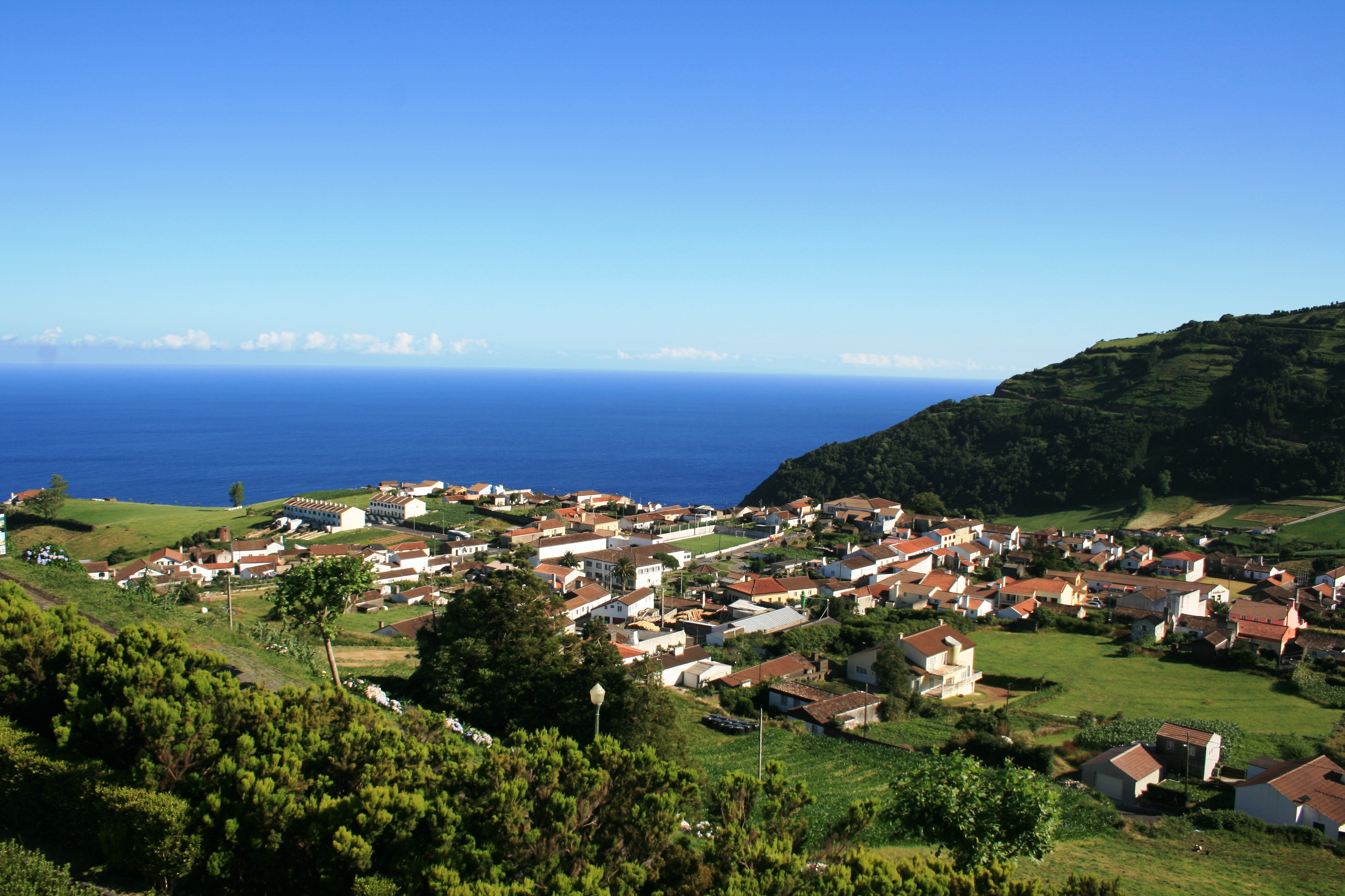 Sao Miguel Island, The Azores